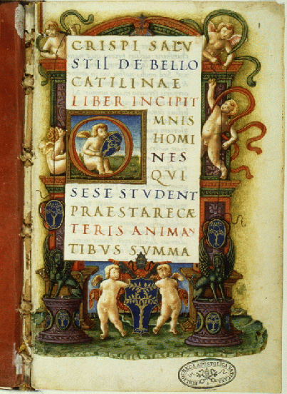 First page with a miniature of Sallust's De bello Catilinae, copied by Bartolomeo San Vito for Bernardo Bembo, 1471-84, Vatican Library